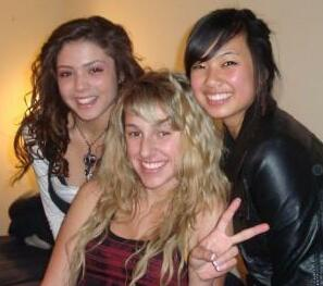 American girl group School Gyrls in the studios